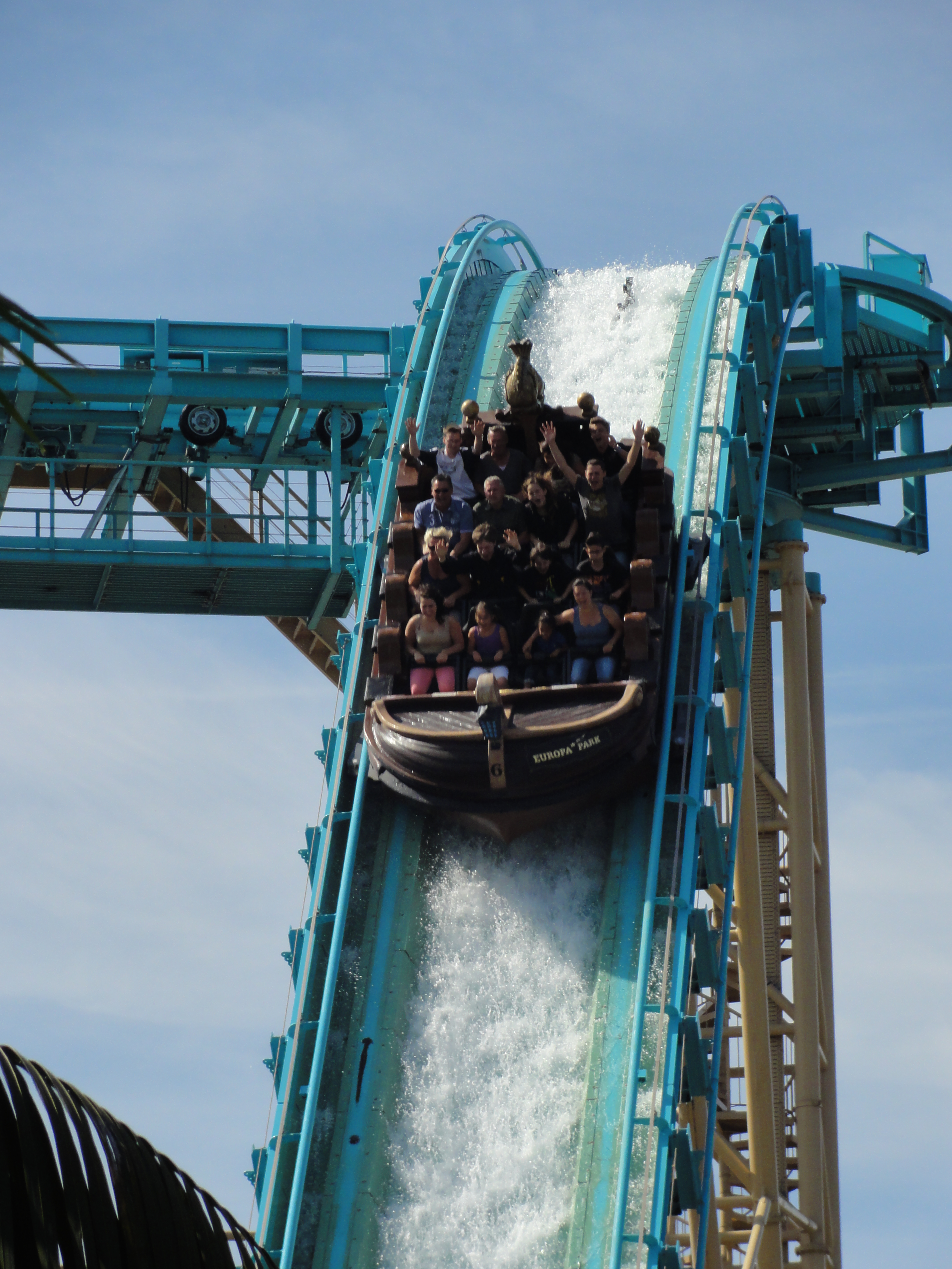 Atlantica SuperSplash, Europa-Park, Rust, Baden-Württemberg, Germany.